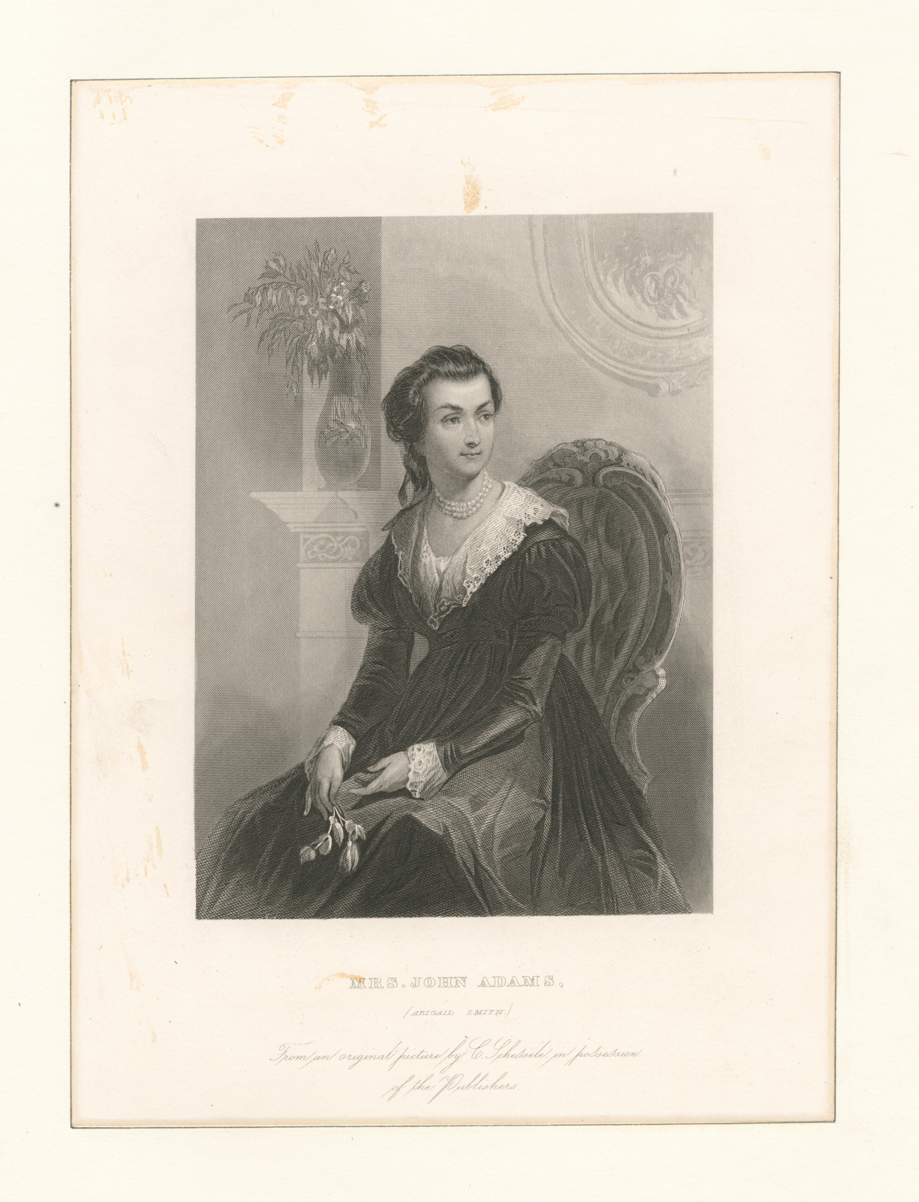 EM2189